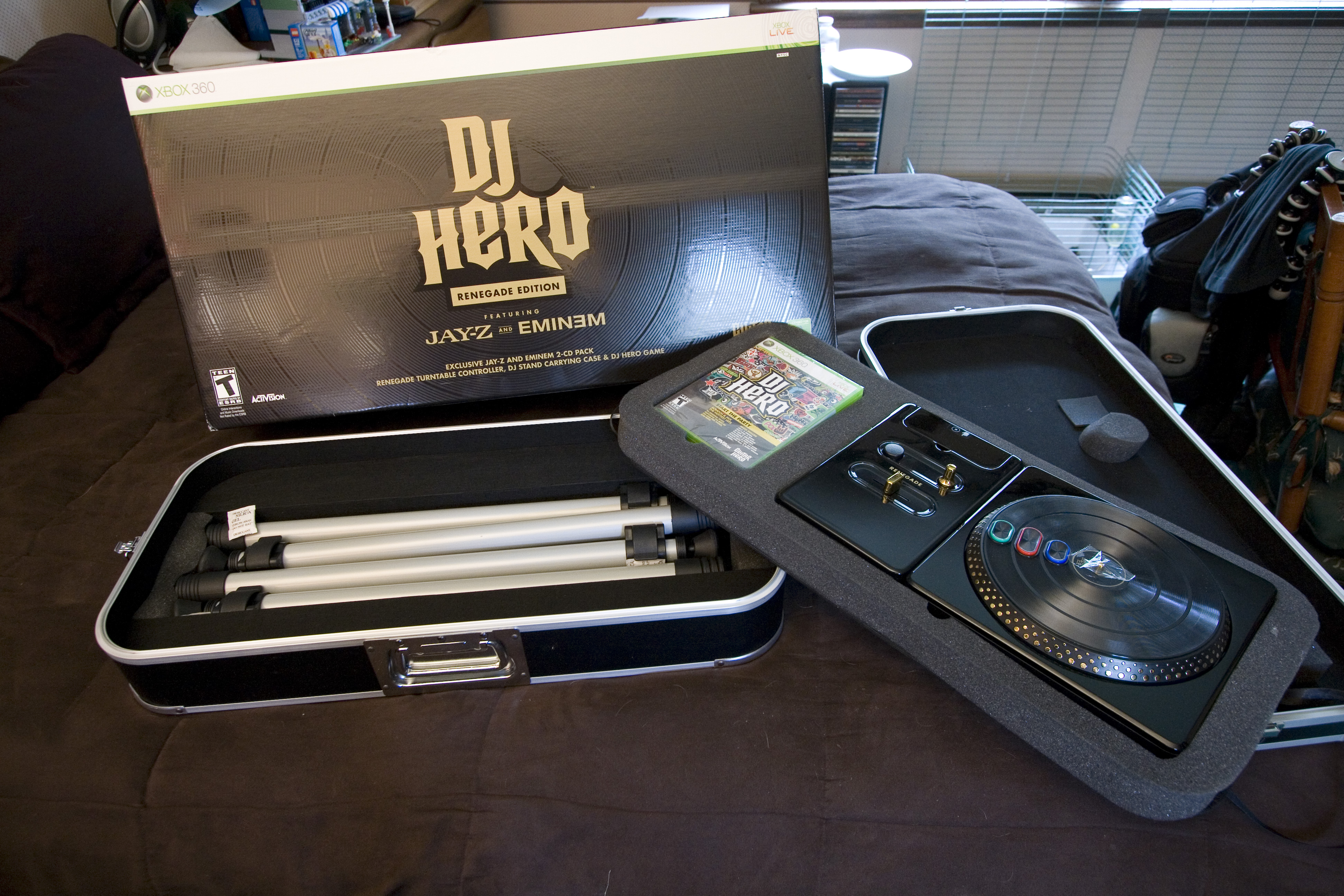 After you pull off the tray (which has handles) the case's legs that transform it into a table are beneath.